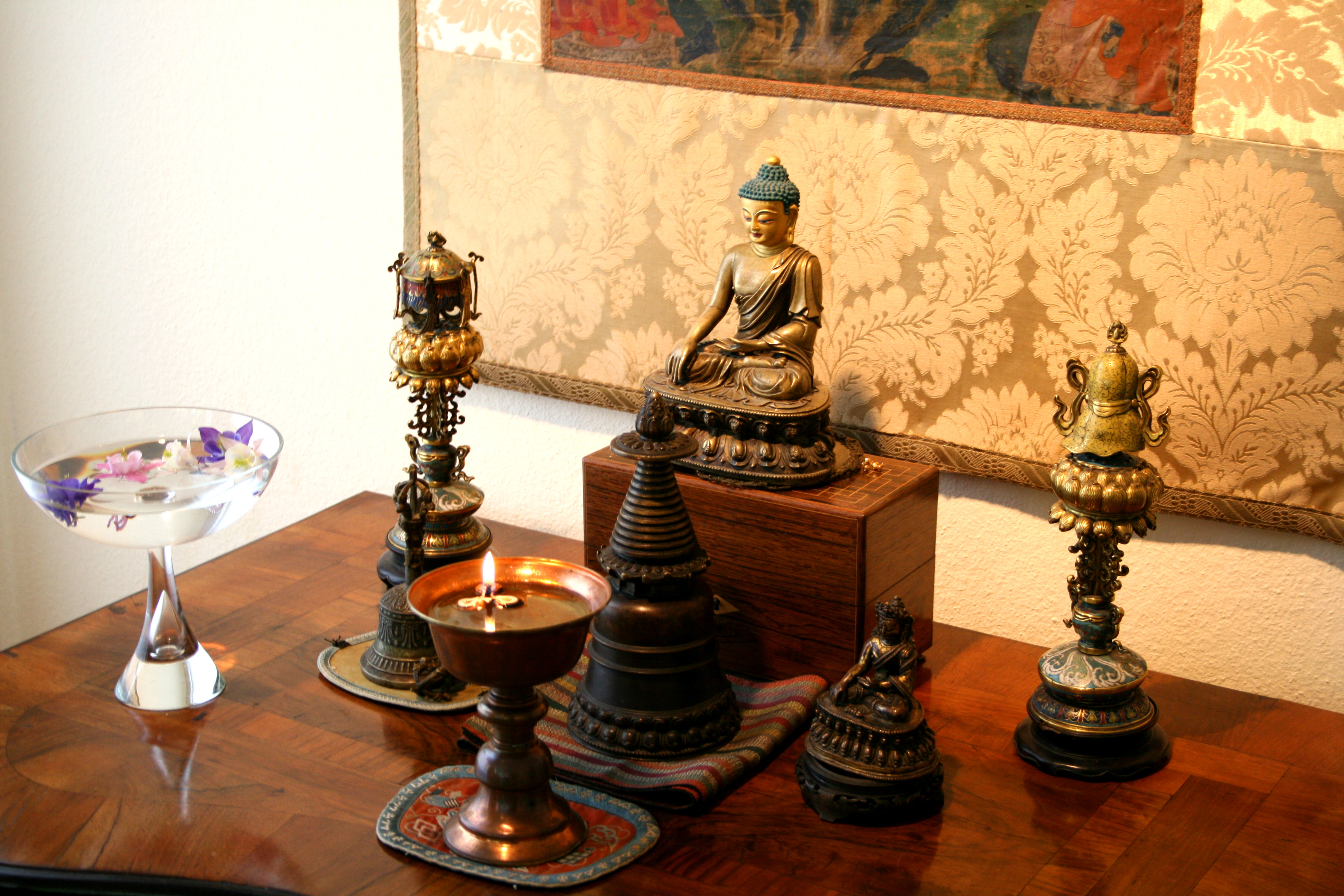 Buddhist shrine in the house of Swiss artist Sonam Dolma Braunen in the city of BernSee also: Yangzom Brauen & Yangzom Brauen (husband)